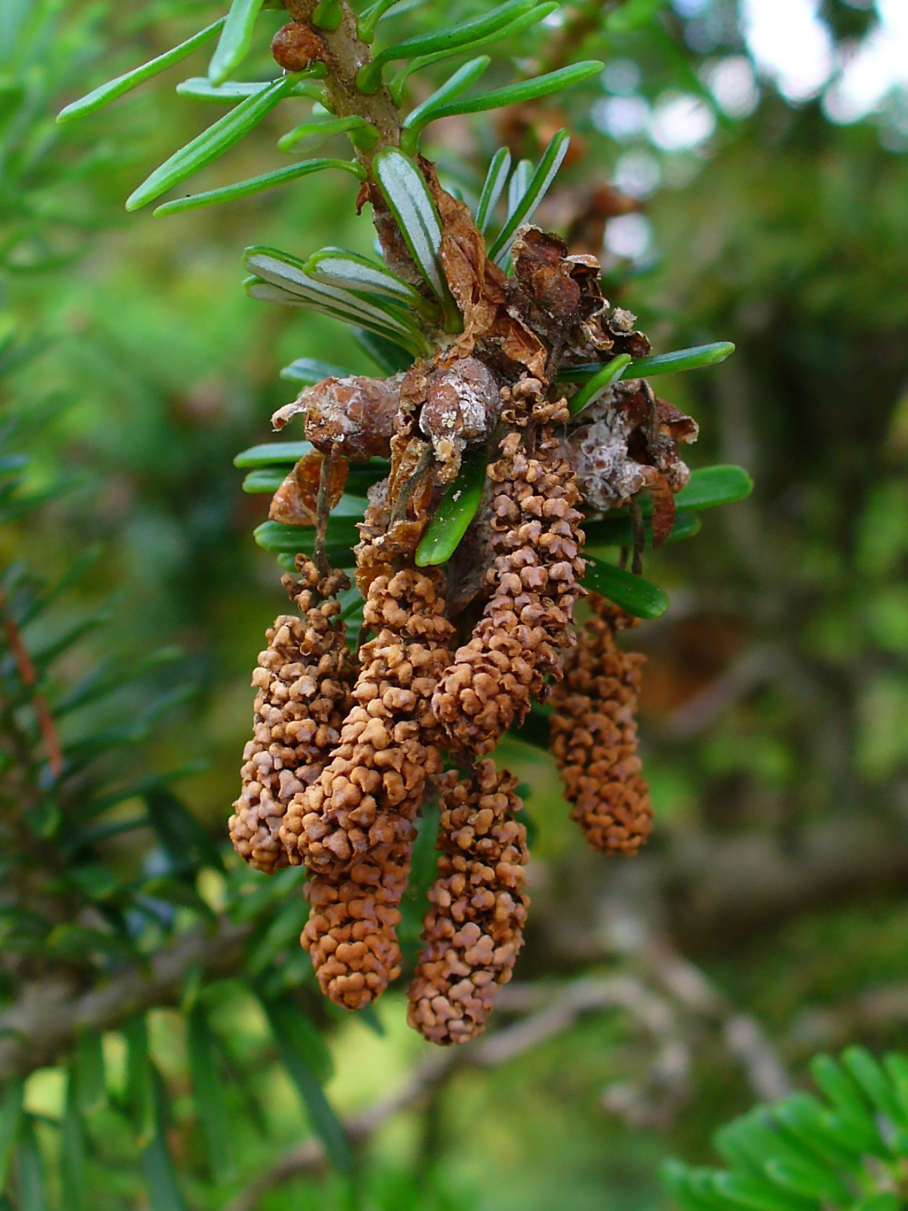 Abies koreana, Pinaceae, Korean Fir, male inflorescences; Botanical Garden KIT, Karlsruhe, Germany.